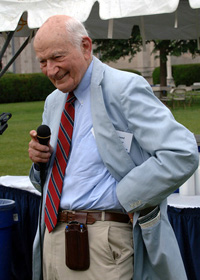 Edmond La Beaume Cherbonnier at age 90, during the outdoor 50th Anniversary Celebration of Trinity College's Religion Department.